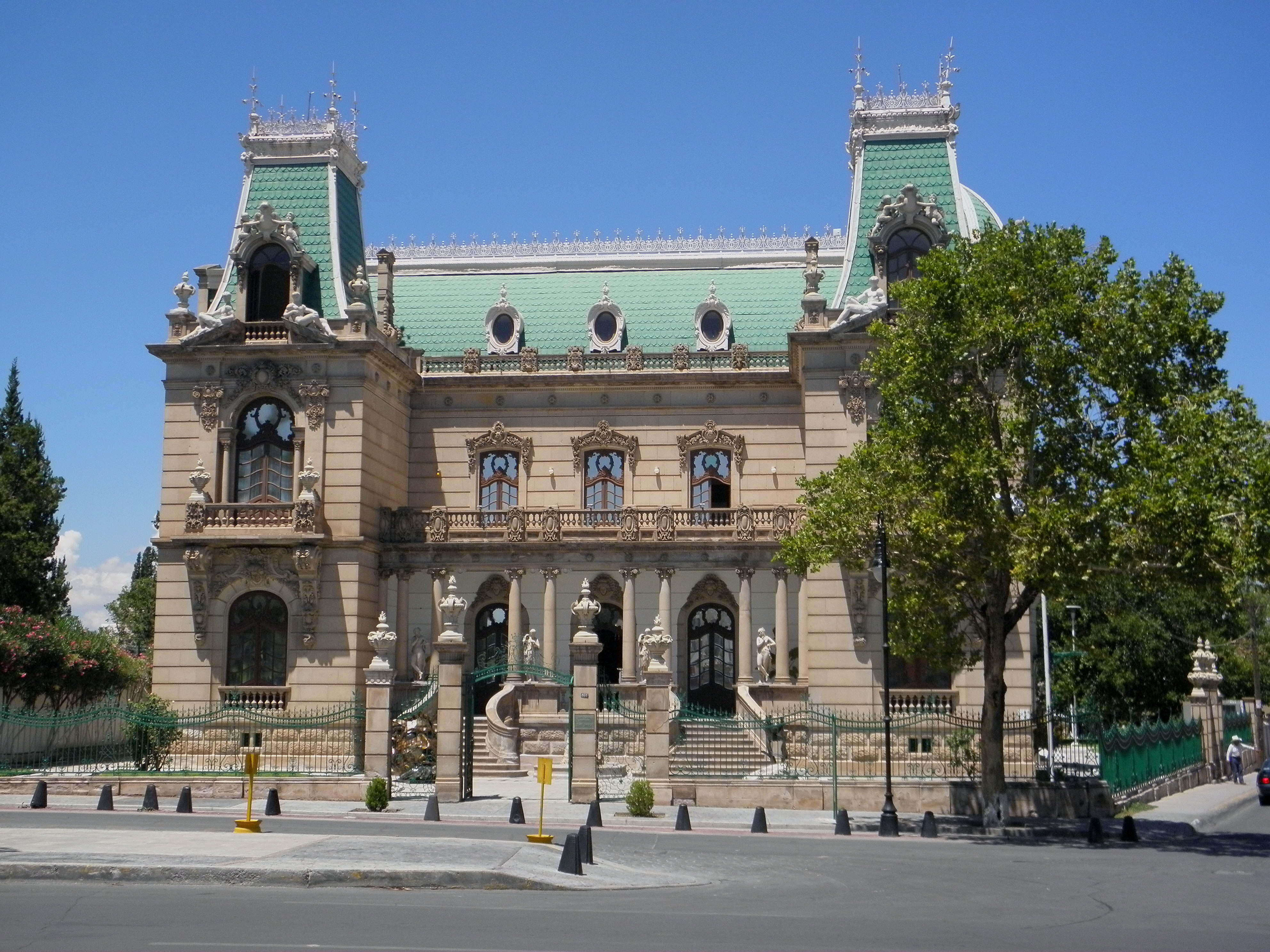 Quinta Gameros, Chihuahua, Mexico, built prior to the Mexican Revolution by a mining baron, now the University Museum for the Decorative Arts. On Paseo Simon Bolivar.